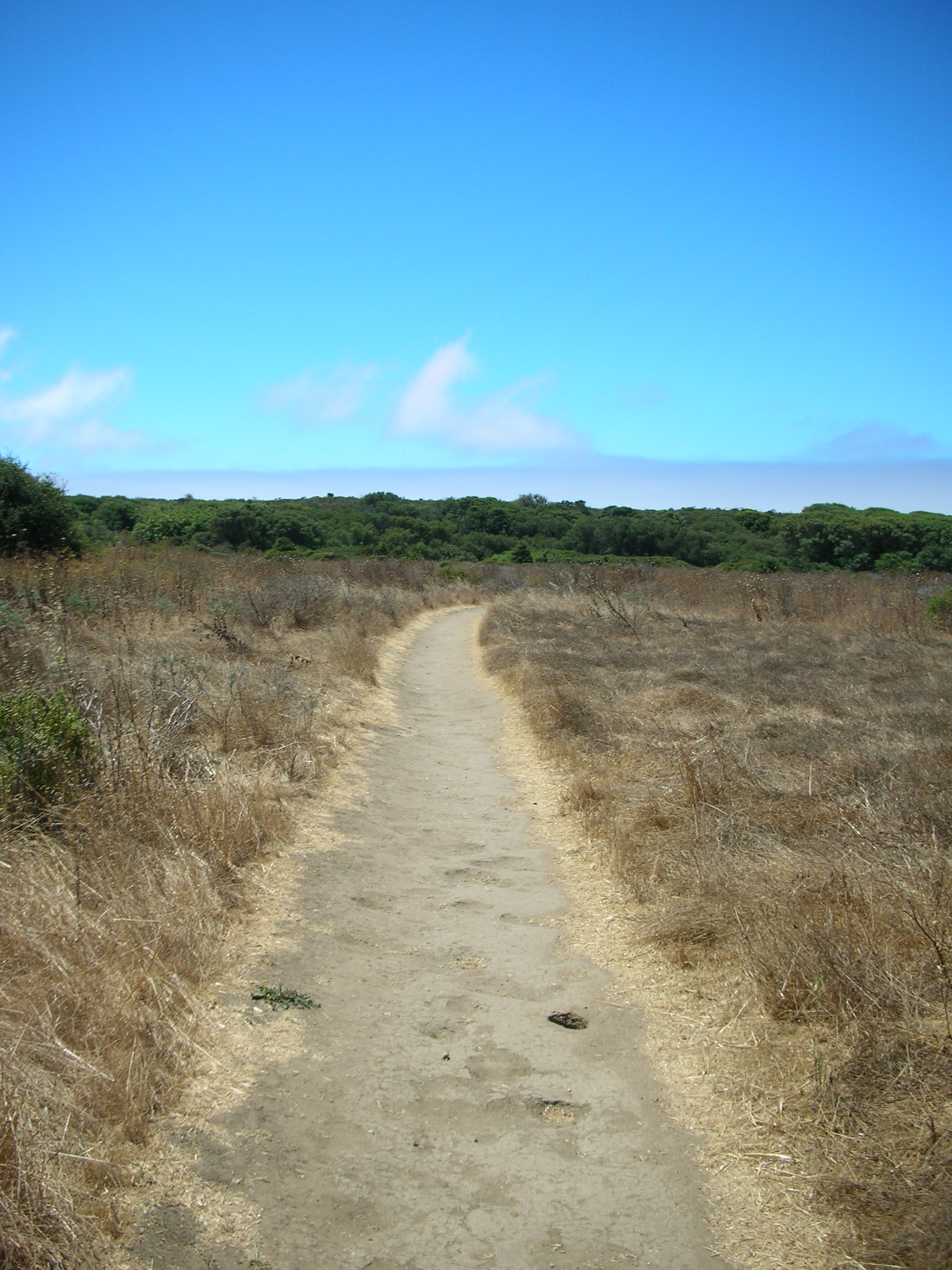 A trail in Andrew Molera State Park — in Big Sur, California.